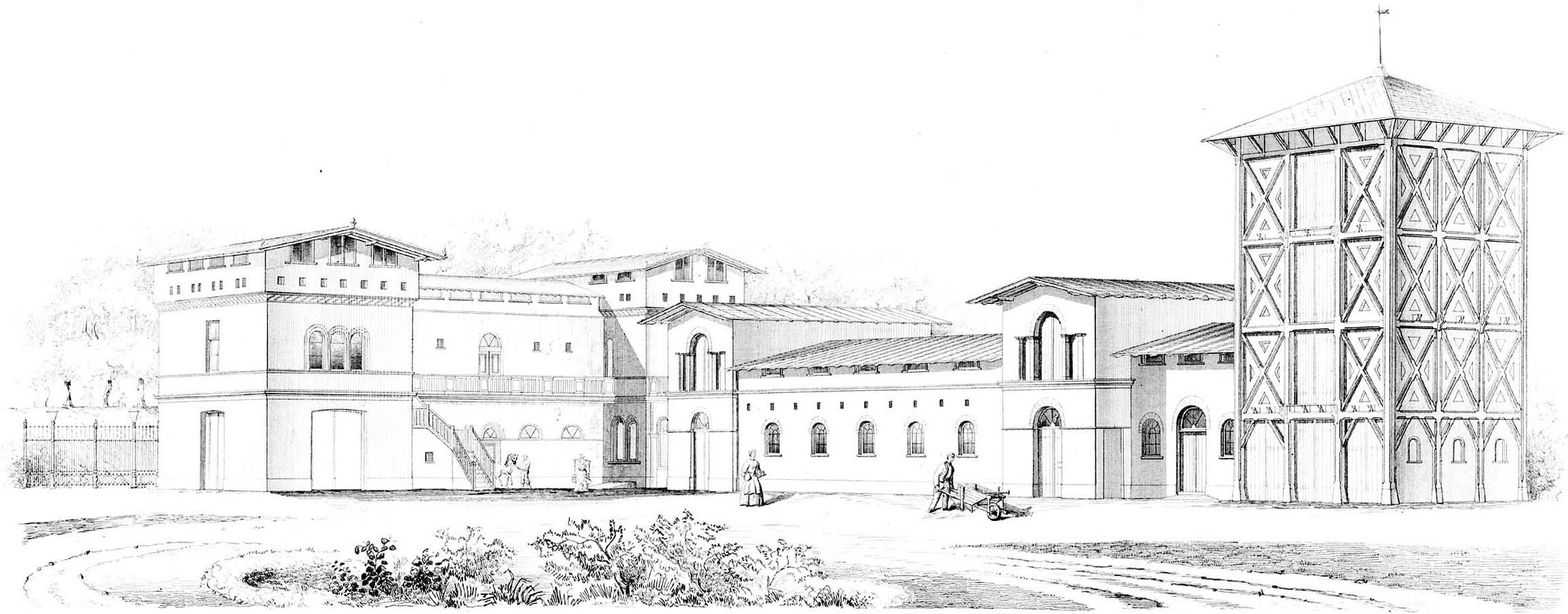 Farm, Dijkzigt estate, Rotterdam, perspective.